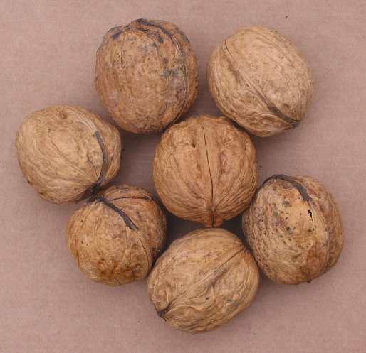 Walnuts 'Buccaneer'.